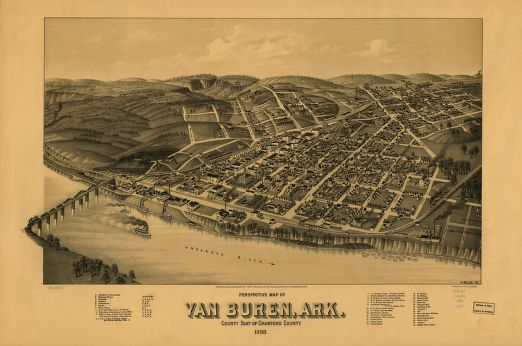 1888 map of Van Buren, Arkansas. Panoramic bird's eye map published by Milwaukee, Henry Wellge & Co.